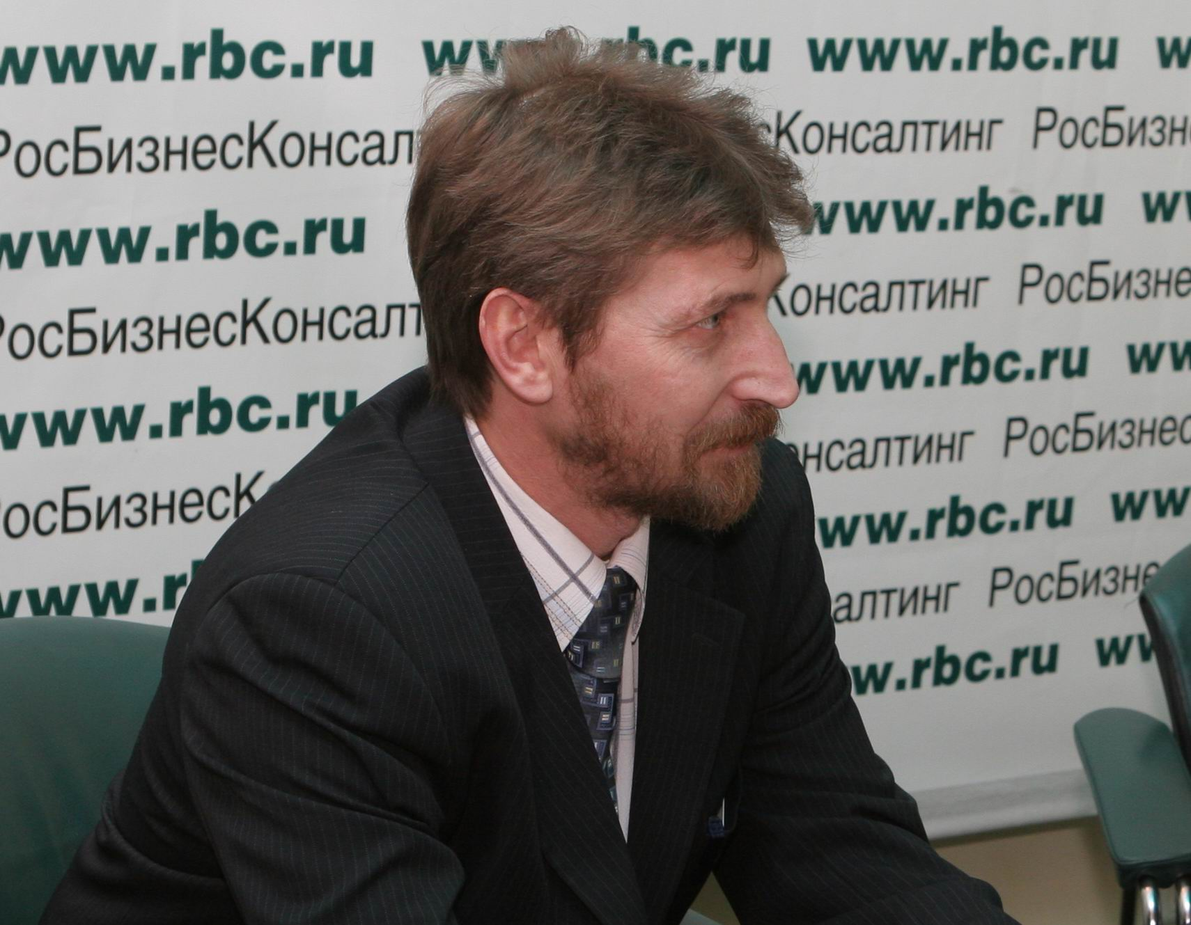 Alexander Ponosov